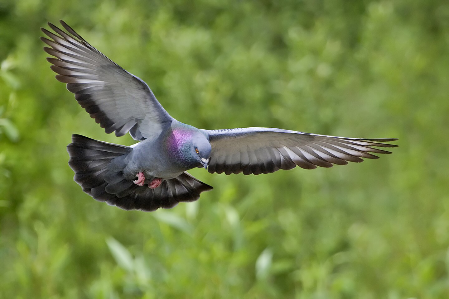 Feral Rock Dove at the Burnaby Lake Regional Park in Burnaby, BC, Canada.